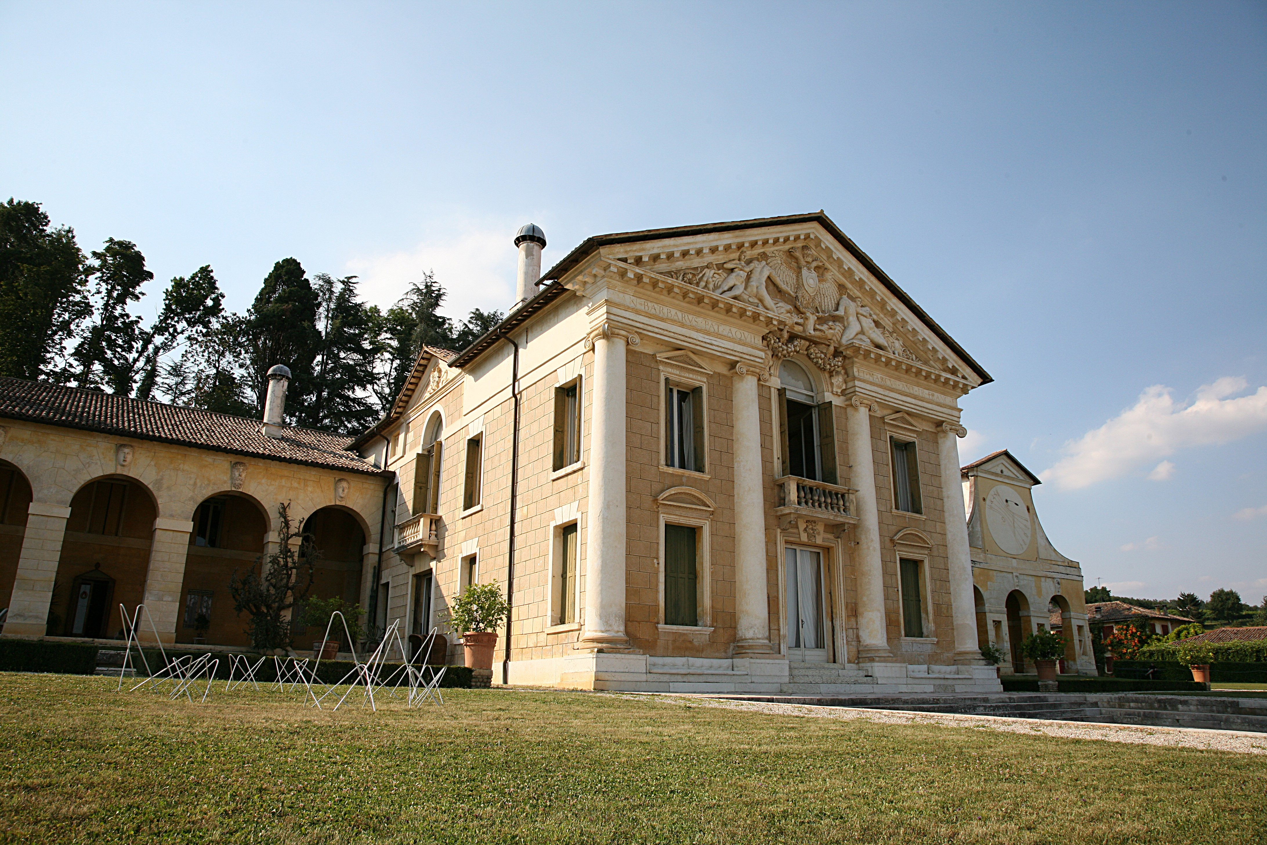 Villa Barbaro at Maser by Andrea Palladio.